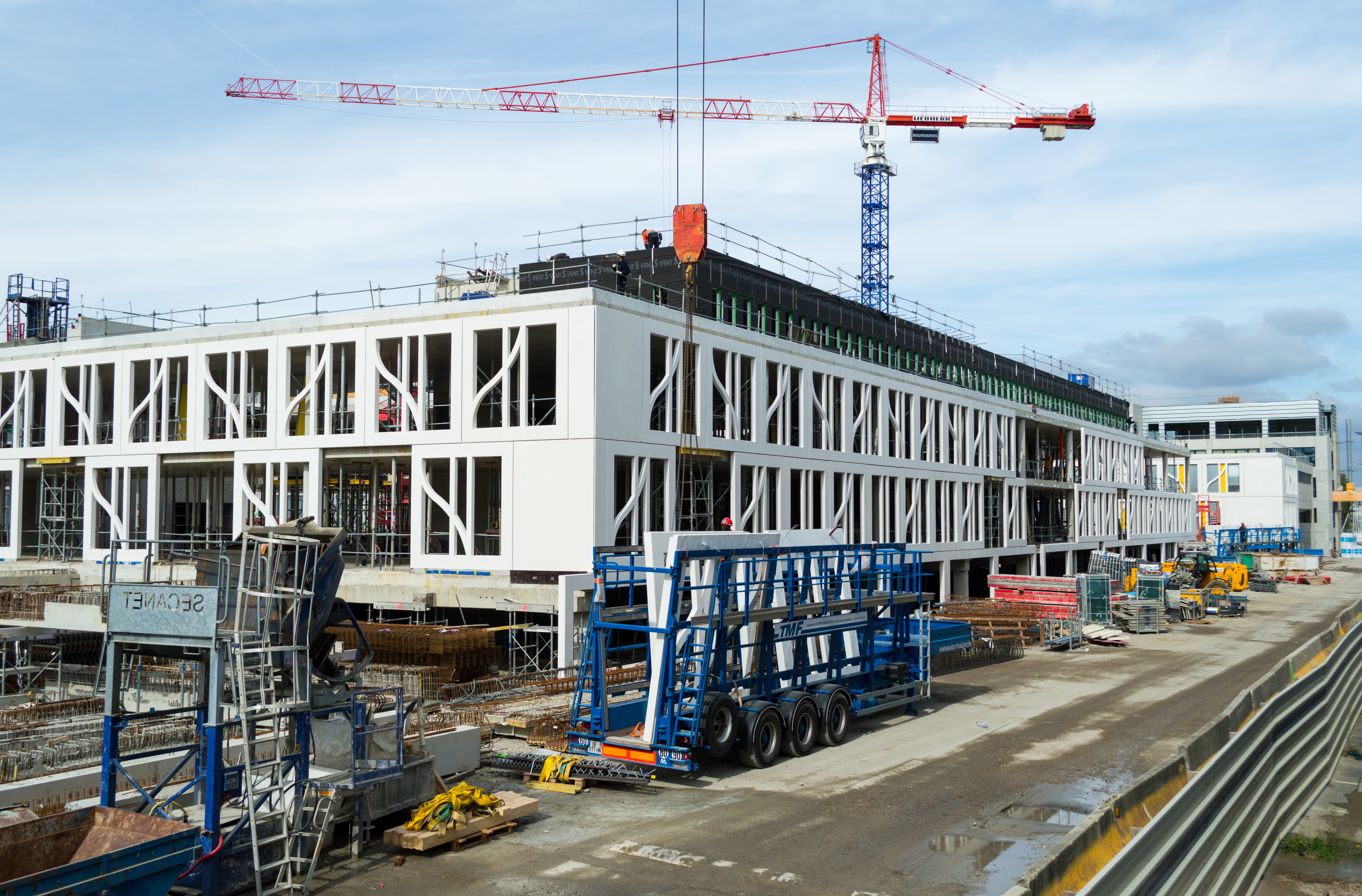 Rehabilitation site of the Université de Toulouse-Jean Jaurès.